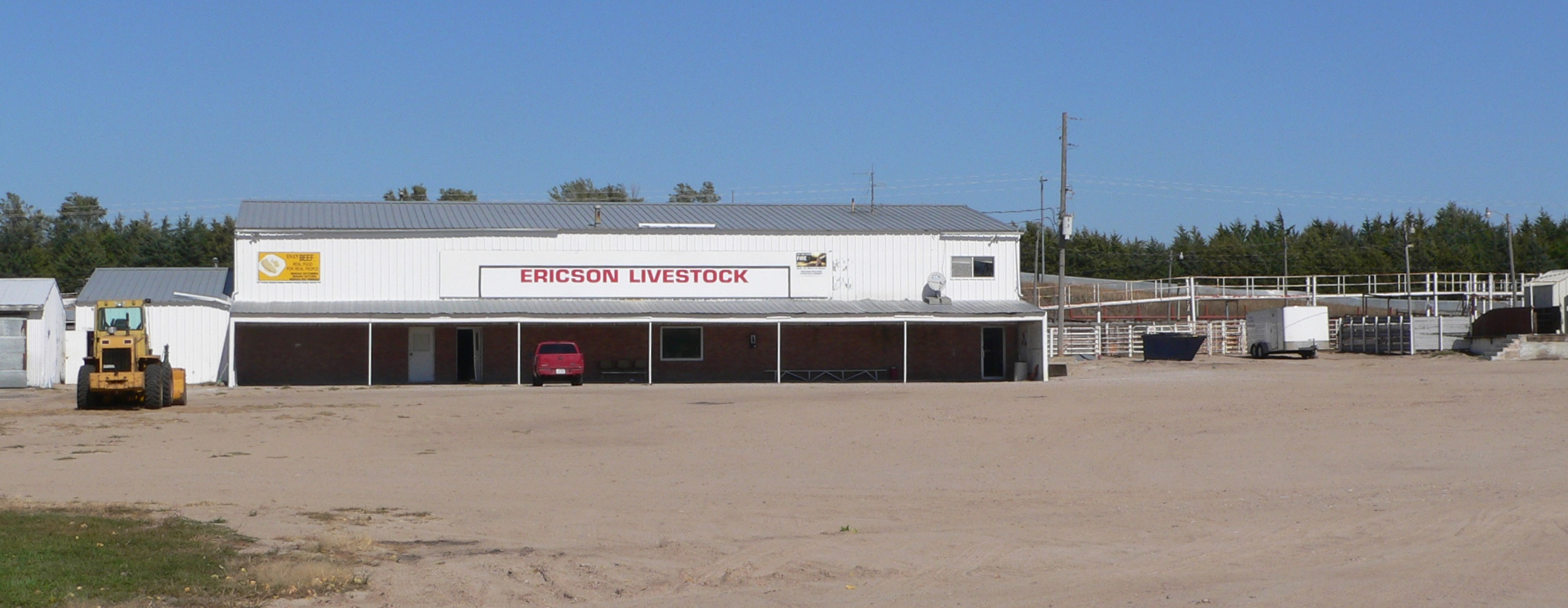 Ericson-Spalding Livestock Market, located on Nebraska Highway 91 at the northern edge of Ericson, Nebraska; seen from the south.